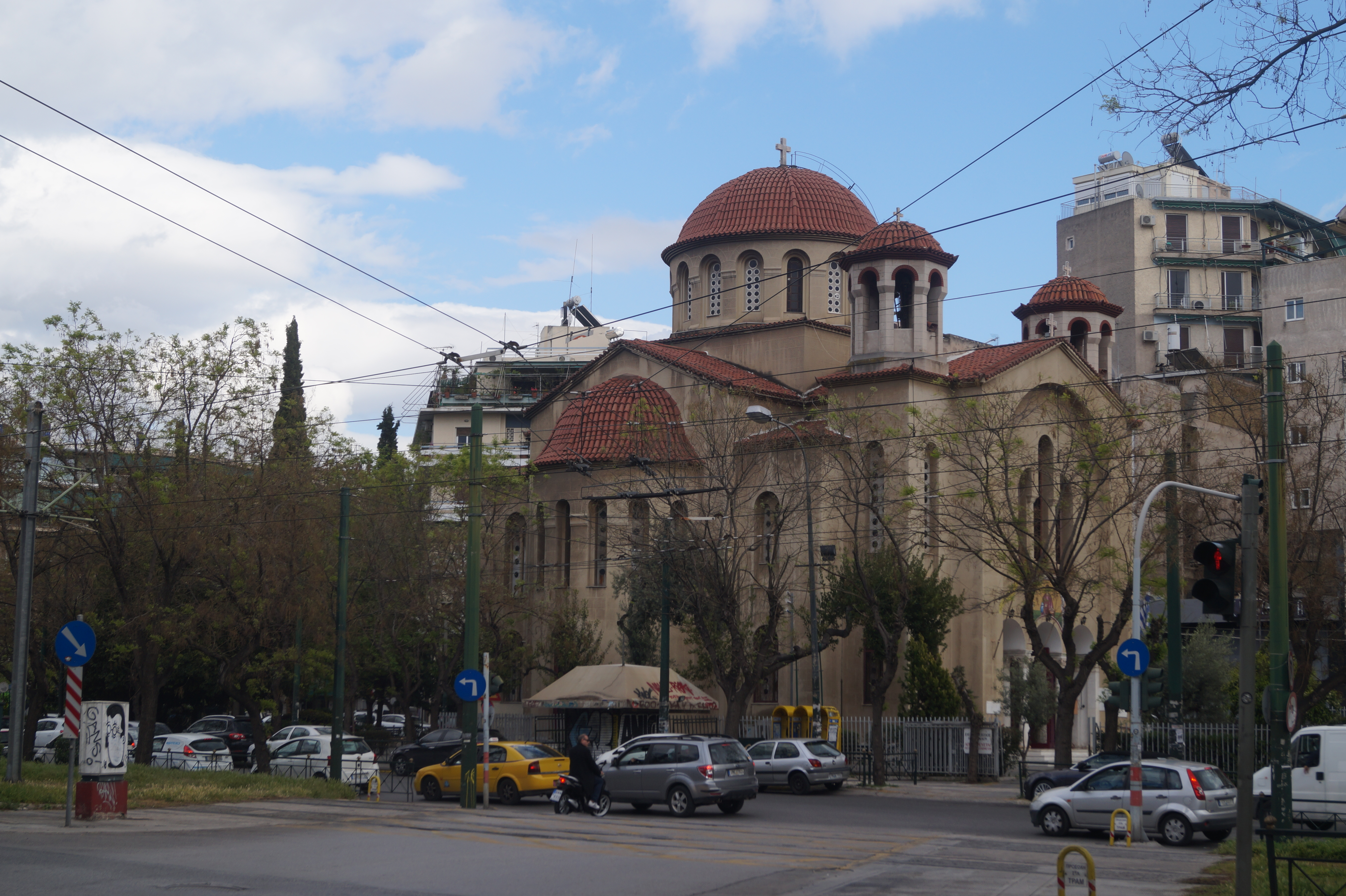 Kalliorois, Athens, Greece: View on the church Agios Panteleimon Ilissou.